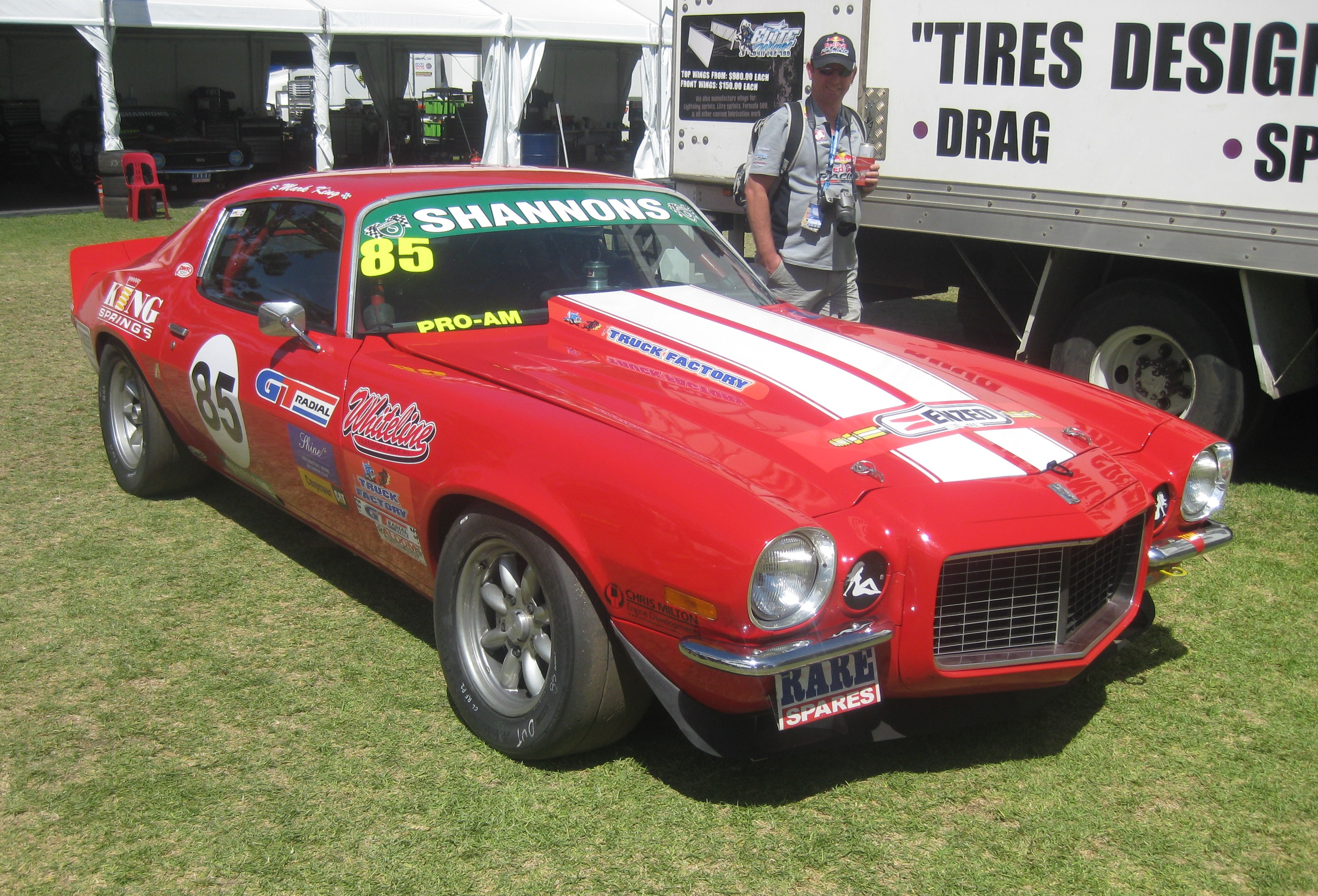 1970 Chevrolet Camaro RS of Mark King. Round 1, 2014 Touring Car Masters, Adelaide Parklands Circuit.